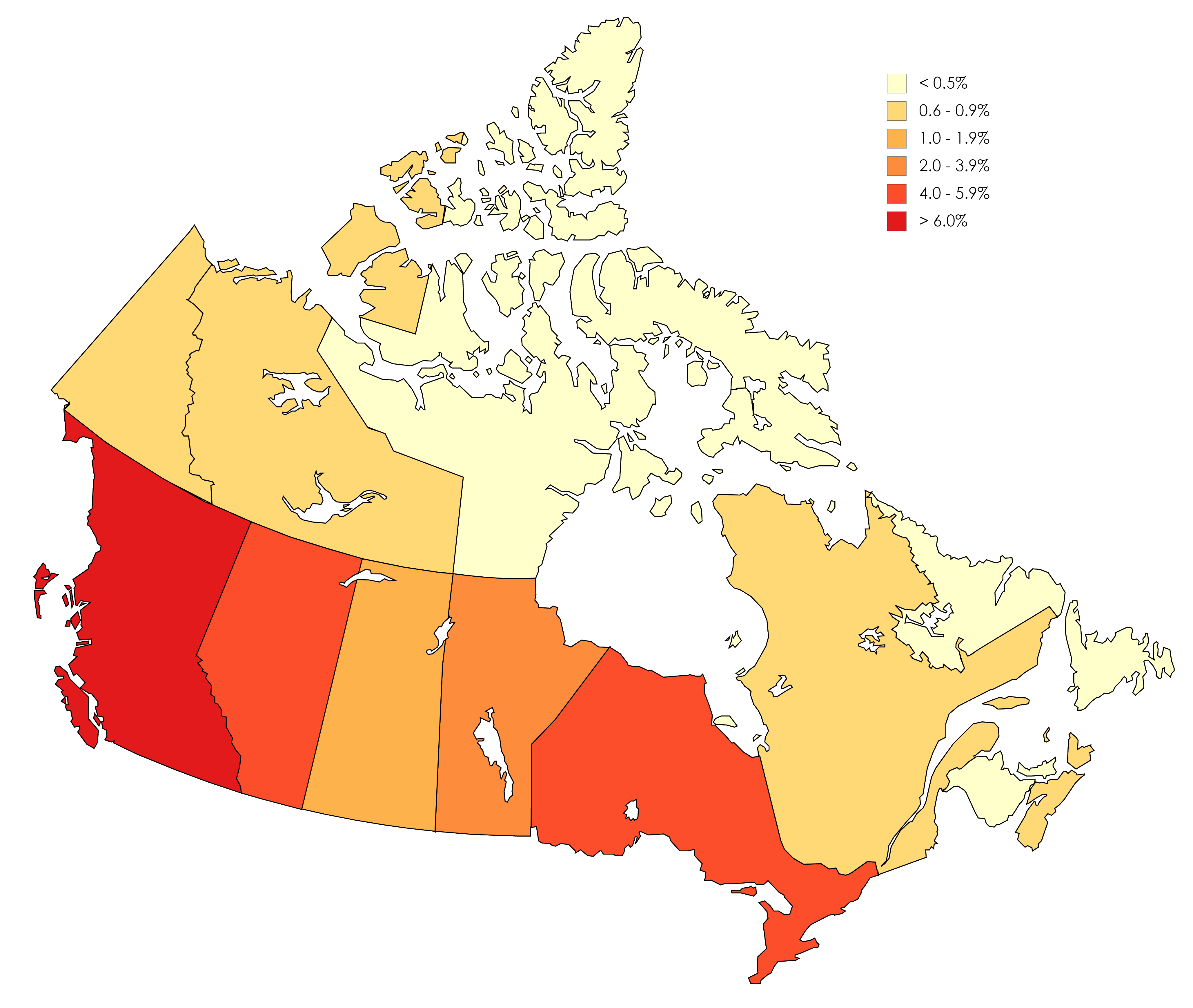 Population distribution of Indo-Canadians by % of total population by province/territory, 2016 census